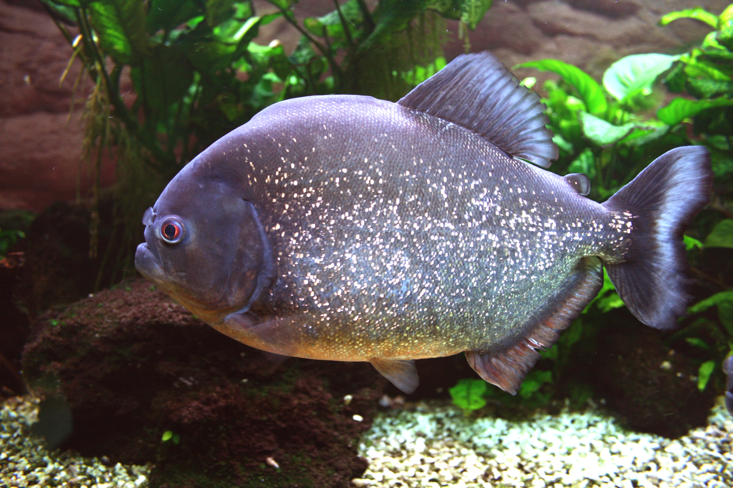 Fish Red-bellied piranha Pygocentrus nattereri in Prague sea aquarium, Czech Republic